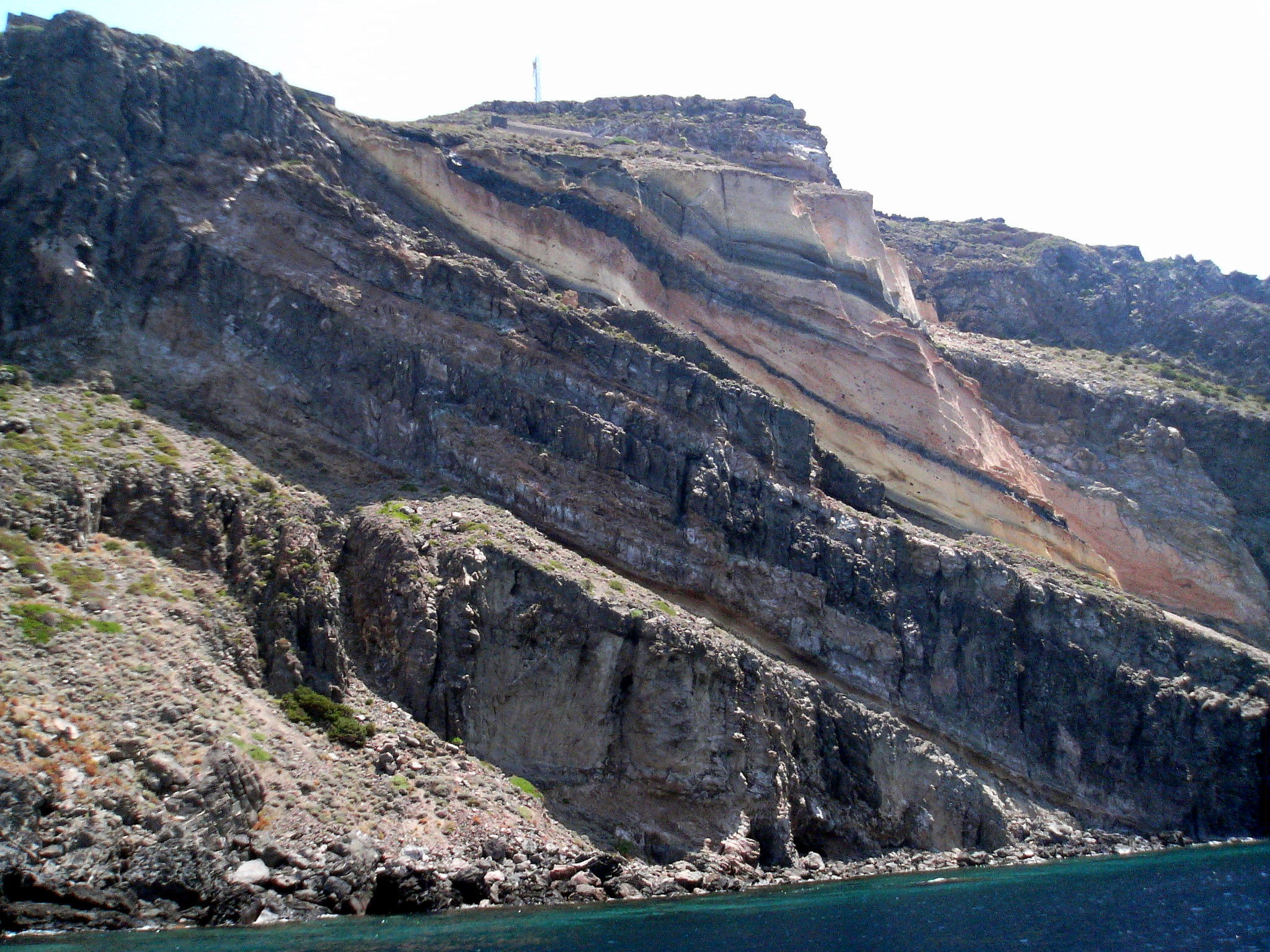 Volcanic rocks on the island of Pantelleria in Italy.